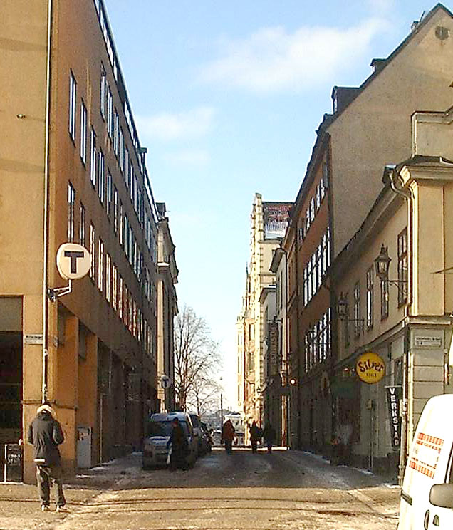 Munkbrogatan in Gamla stan, Stockholm. Composite of three photos.